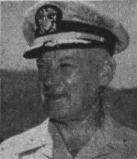 Rear Adm. Russell S. Berkey